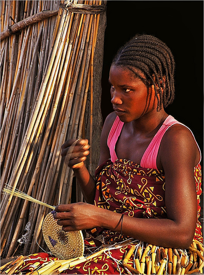 SONY DSC This is an image of "African people at work" from Botswana